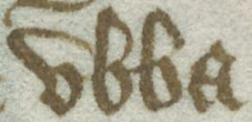 Excerpt from folio 48v of Harley MS 2278.